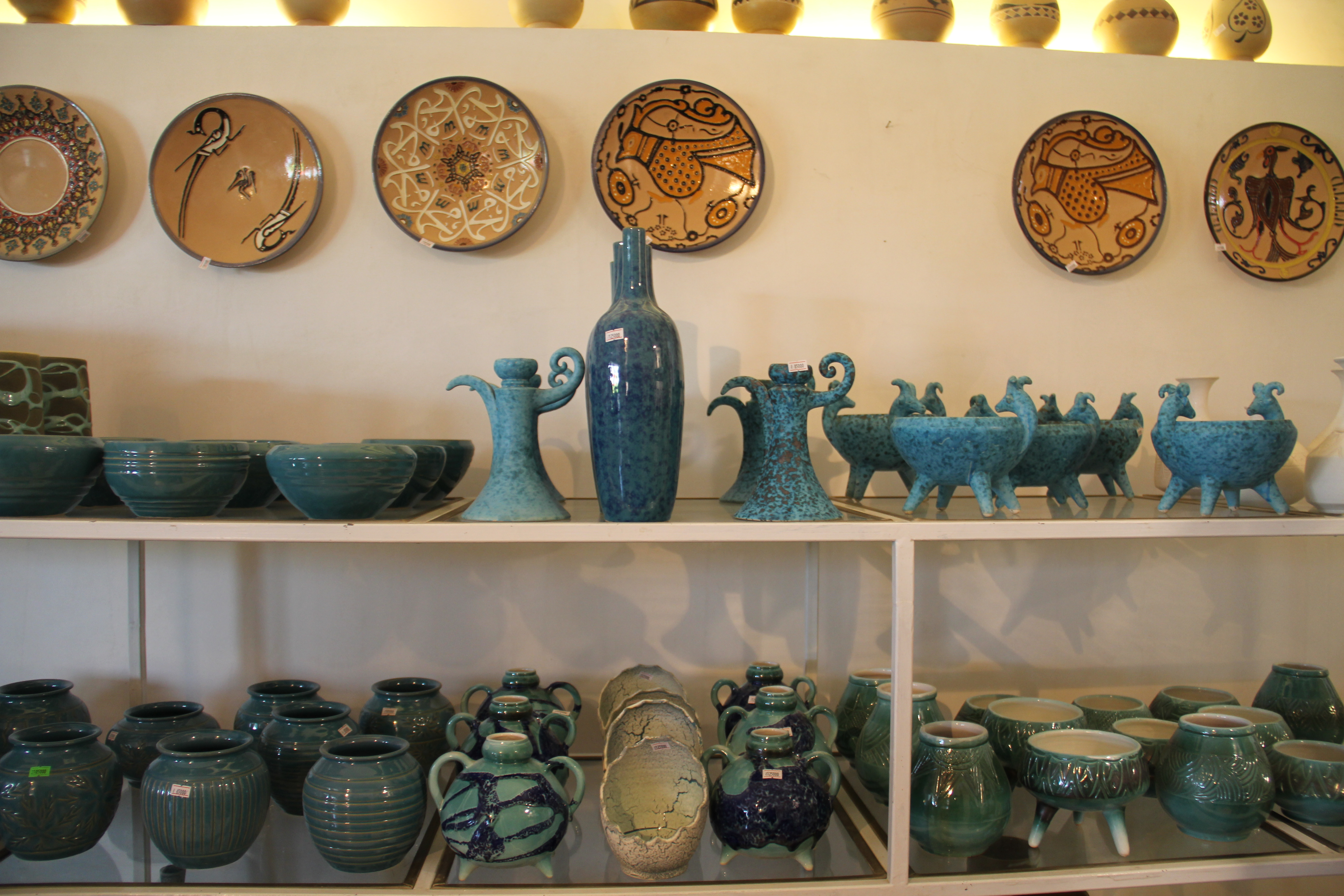 Lalejin-hamedan